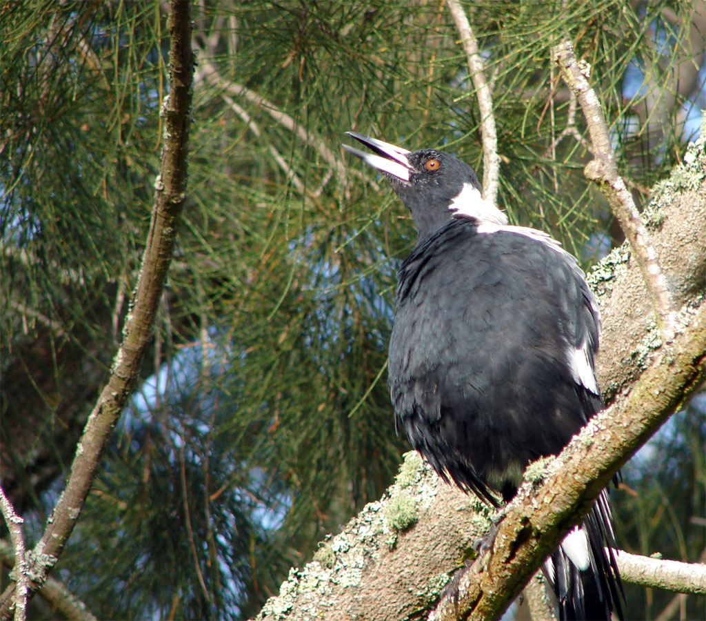 Australian Magpie perched on a sheoak, singing.